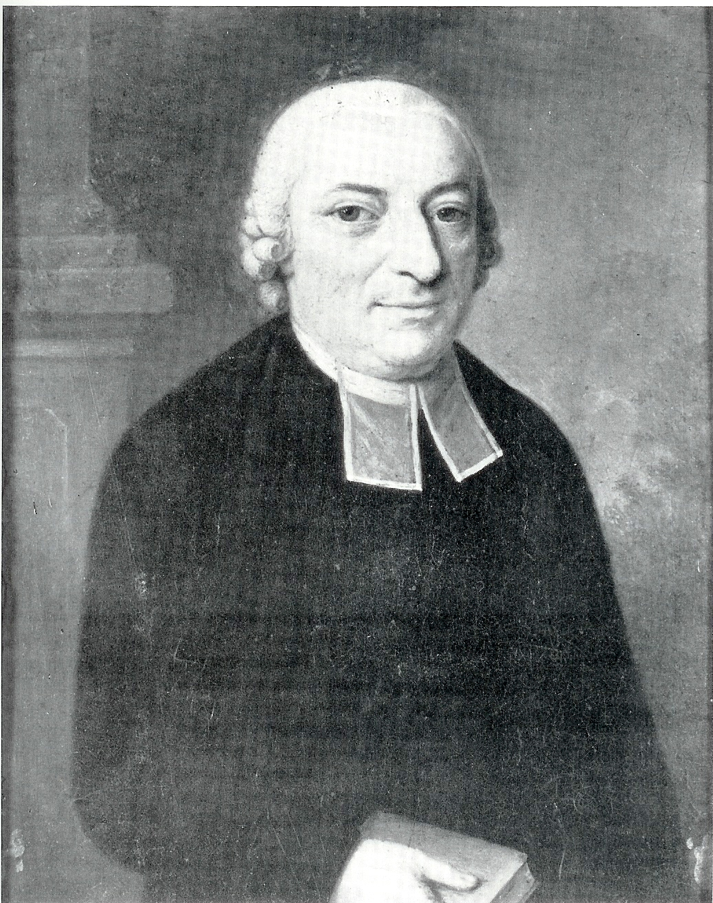 Johann Jacob Gottlieg Scherbius, Anonymes Bildnis, Öl auf Kupfer um 1780